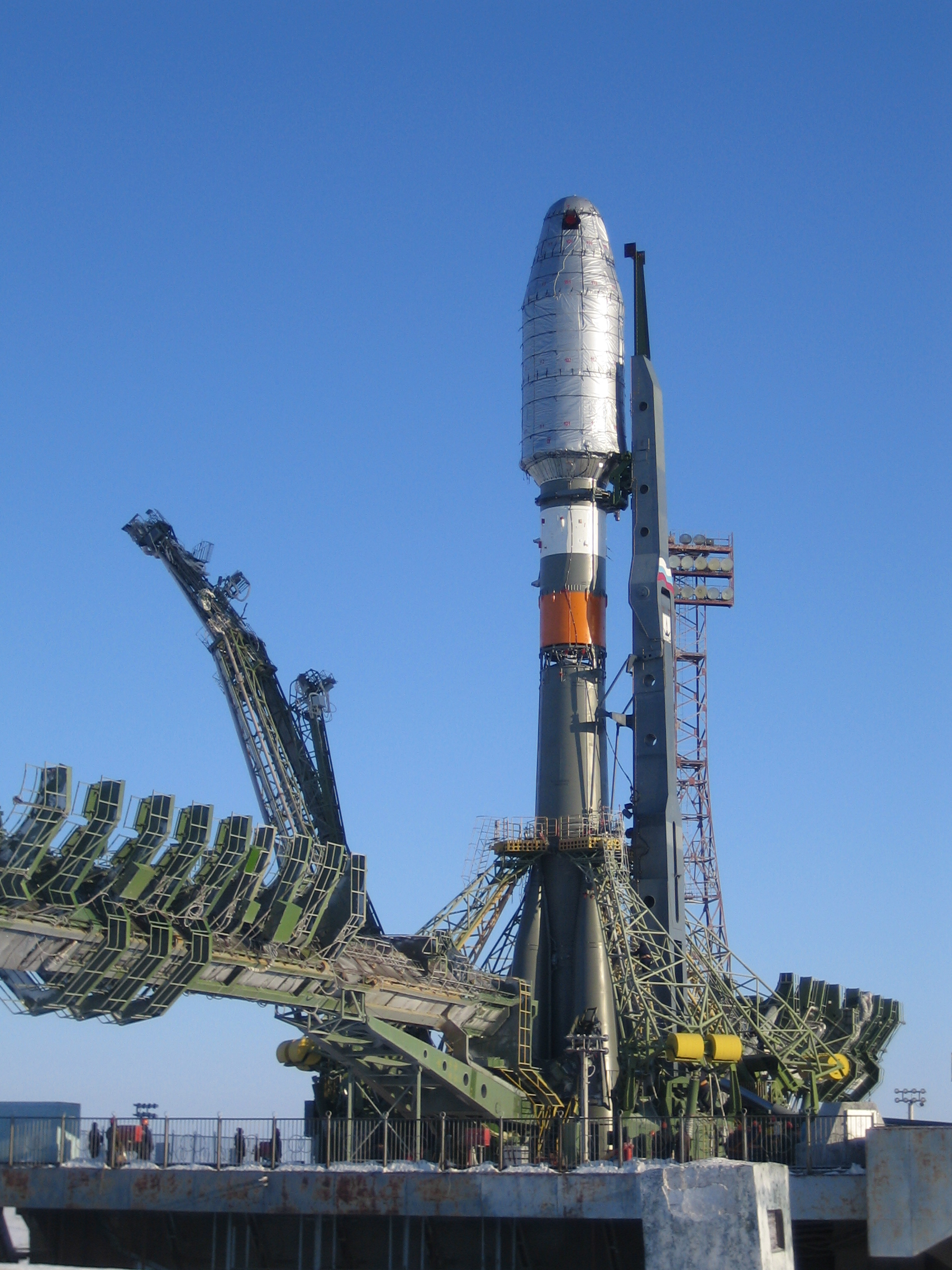 A Metop spacecraft ready for the launch atop a Soyuz-2.1a rocket.